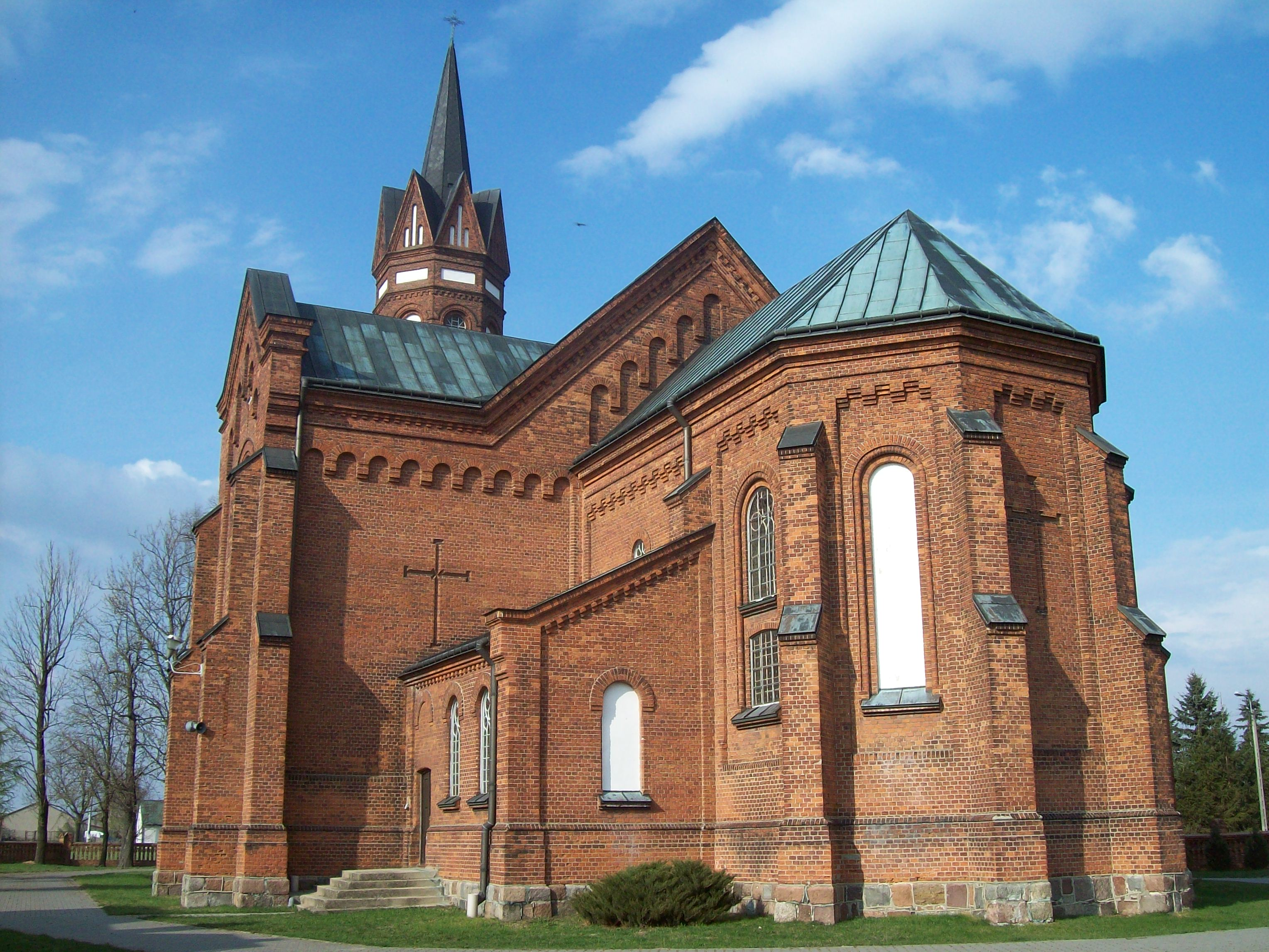 Catolic church in Bytoń (PL)